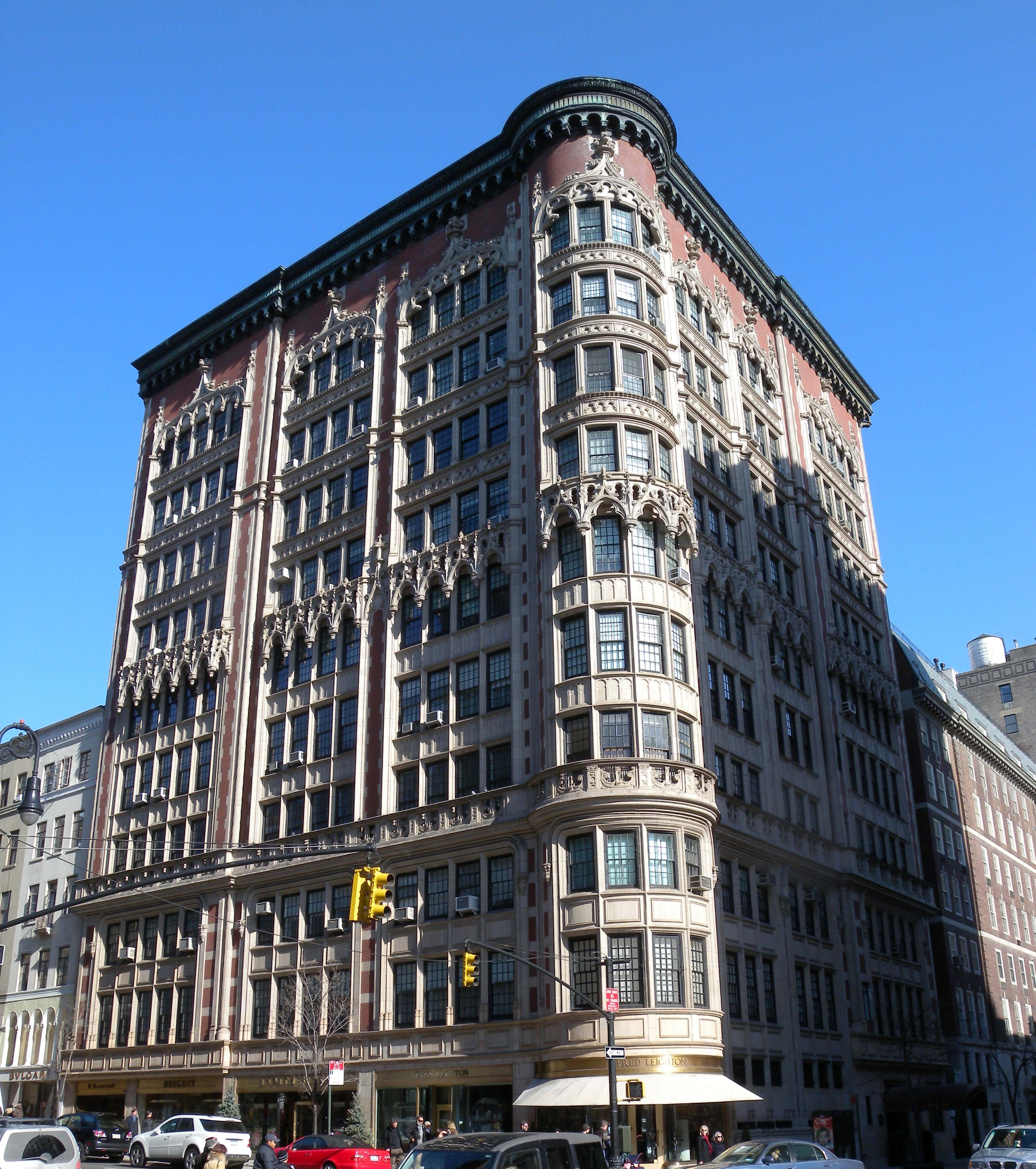 Looking northeast across Madison Avenue and 66th Street at 45 East 66th Street. NYCLPC designation 1977. EXIF date is mistaken due to photographer's error.